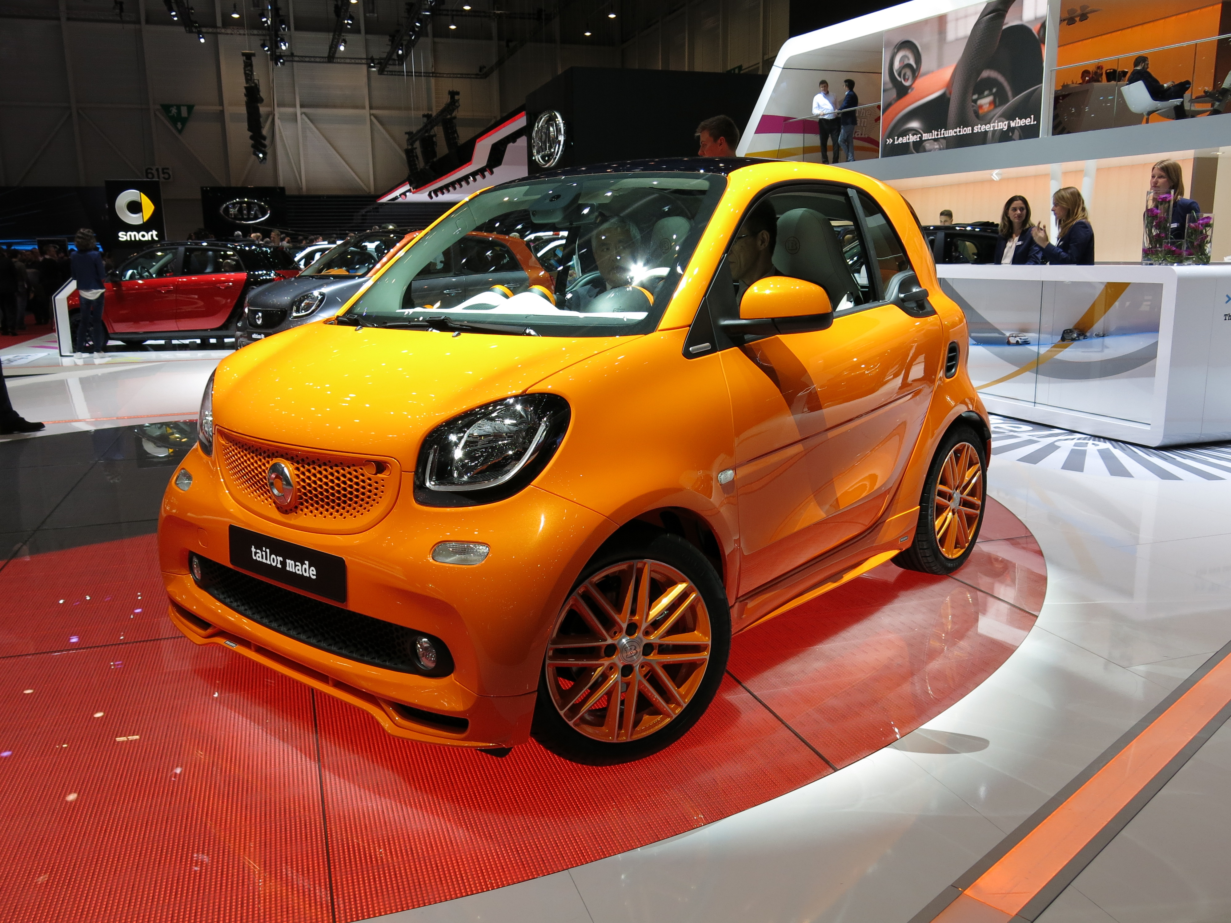 Geneva Motor Show 2015 (photo taken on the first press day)